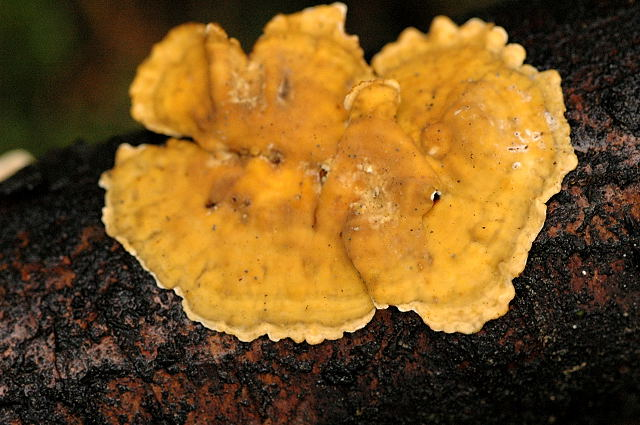 Stereum hirsutum from Commanster, Belgium. The determination of the species shown in this picture has been verified.